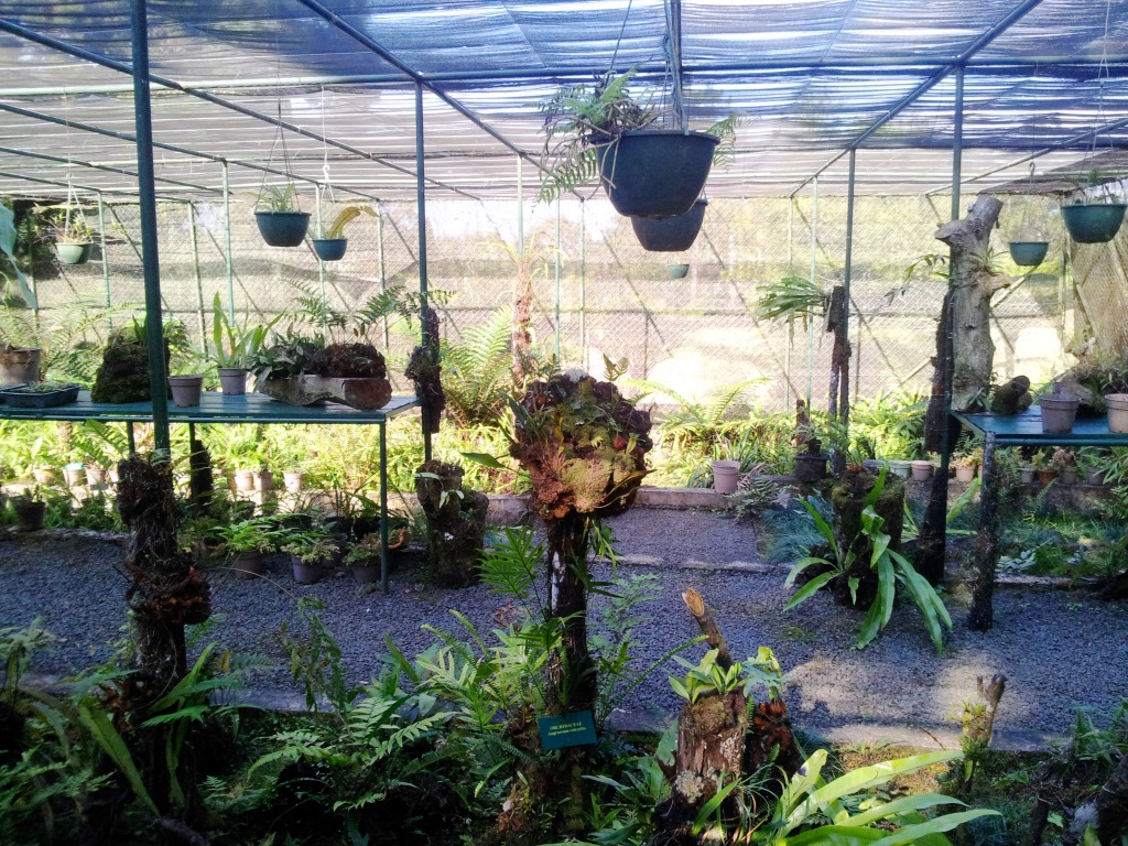 MonVert Fernery - MonVert Nature Park Curepipe Mauritius